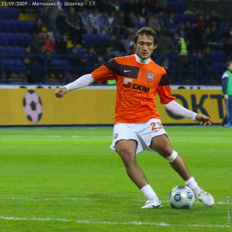 Kostyantyn Kravchenko, Ukrainian footballer, during the game for Shakhtar Donetsk